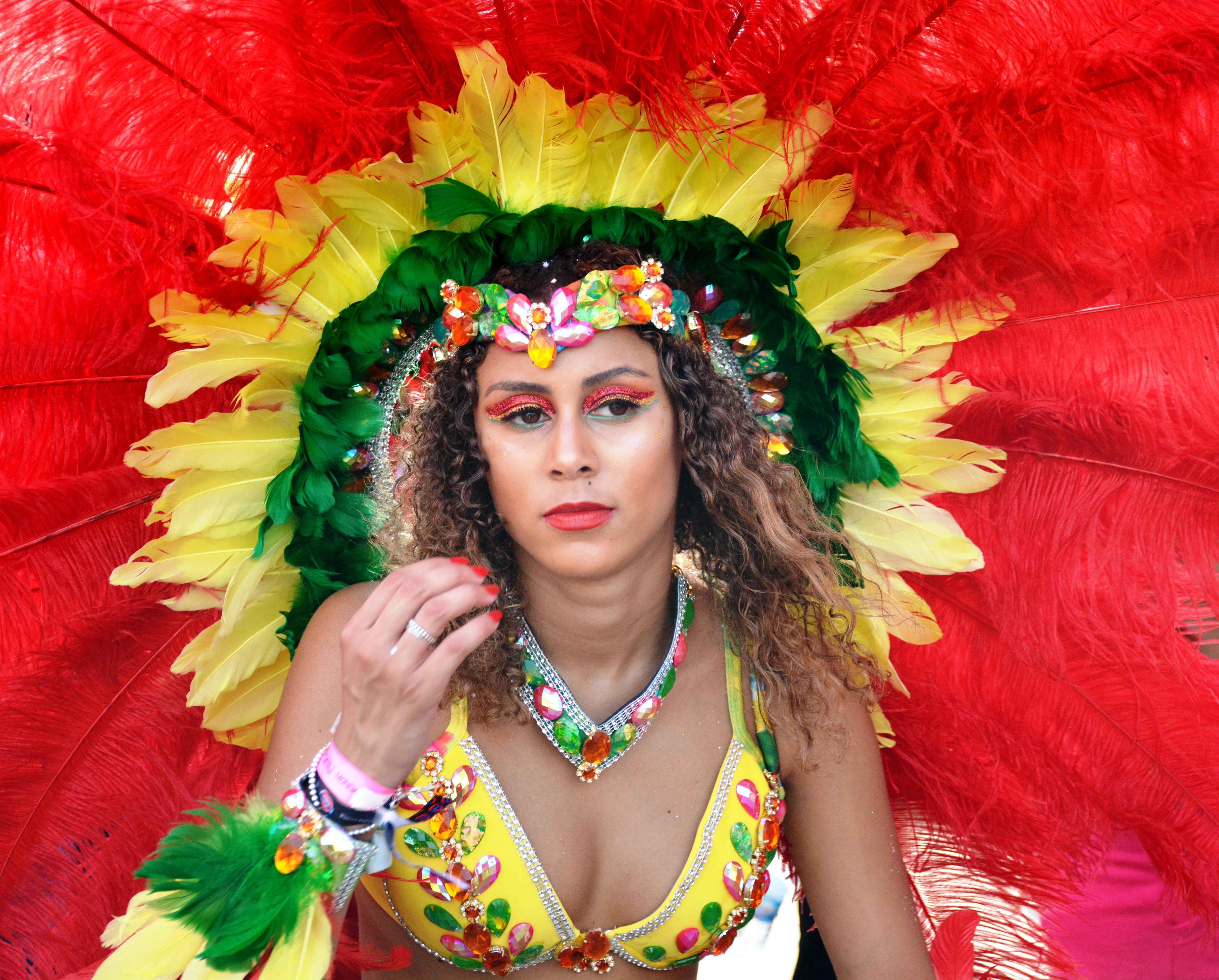 Notting Hill Carnival 2017, London, U.K.